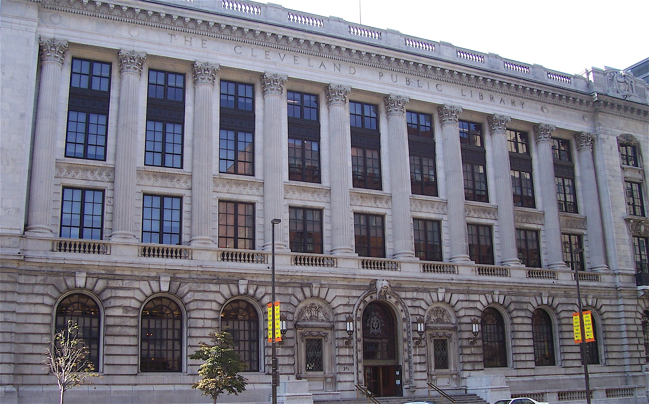 The old half of the Cleveland Public Library. The shot was taken by me on August 11, 2006. I release it under Creative Commons.